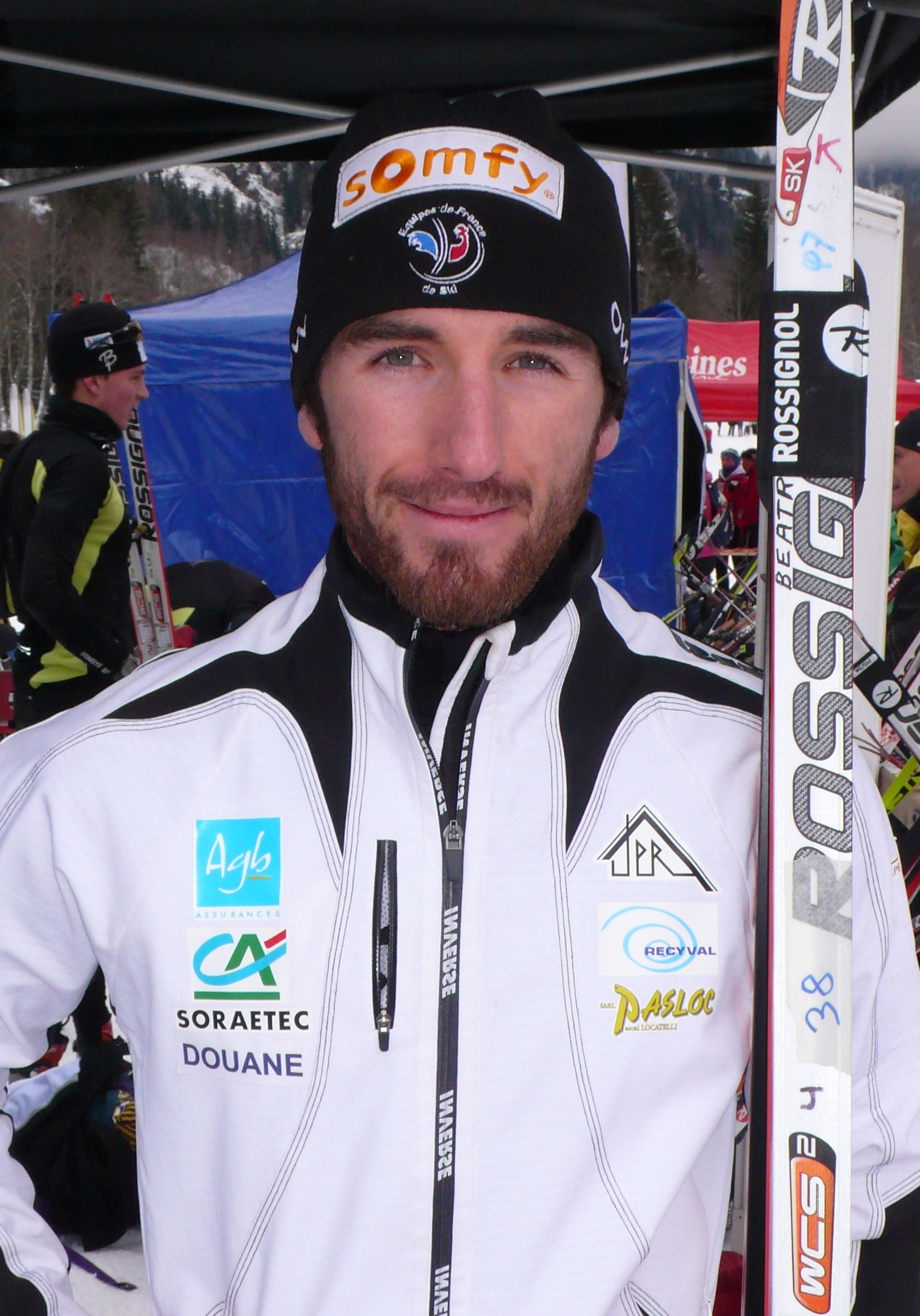 Jean-Guillaume Beatrix, winner of a national race in Les Contamines-Montjoie.